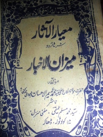 A book on Usole Haddes